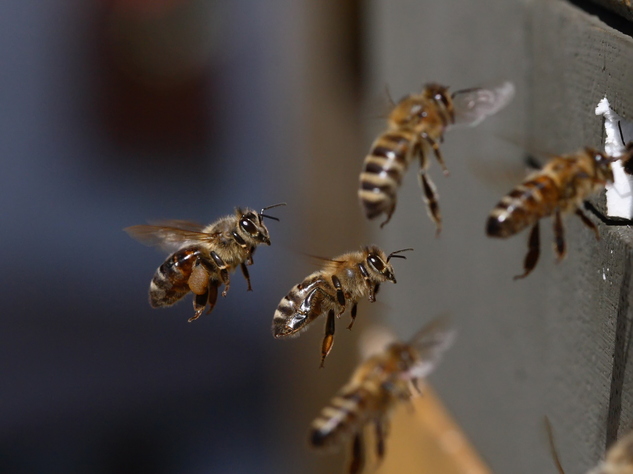 Flying Western honey bees